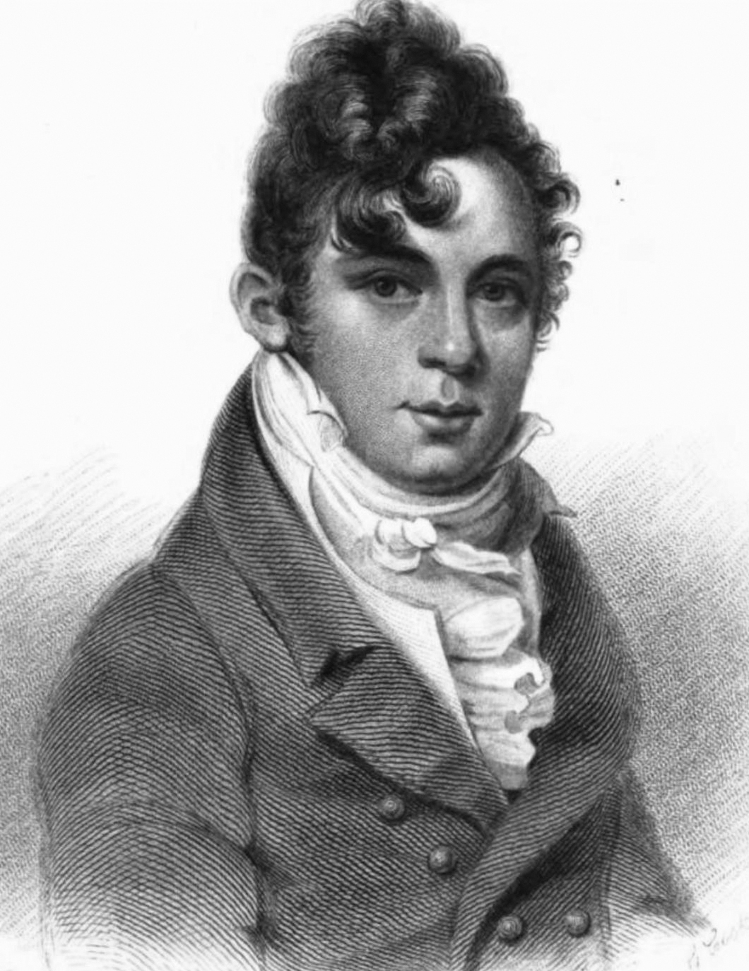 English author Theodore Hook.